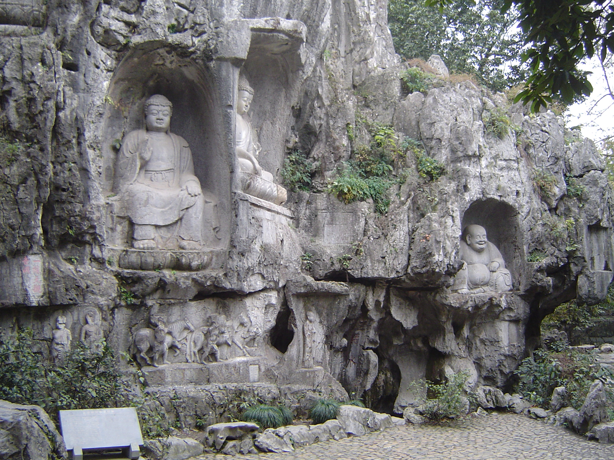 Statues at Feilai Feng grottos, near Lingyin Temple, Hangzhou, China; includes depictions of the pilgrims of the Journey to the West. Photo taken by Sumple on 13/12/2006. As a courtesy, and entirely voluntarily, please notify me if you change this image or its description.